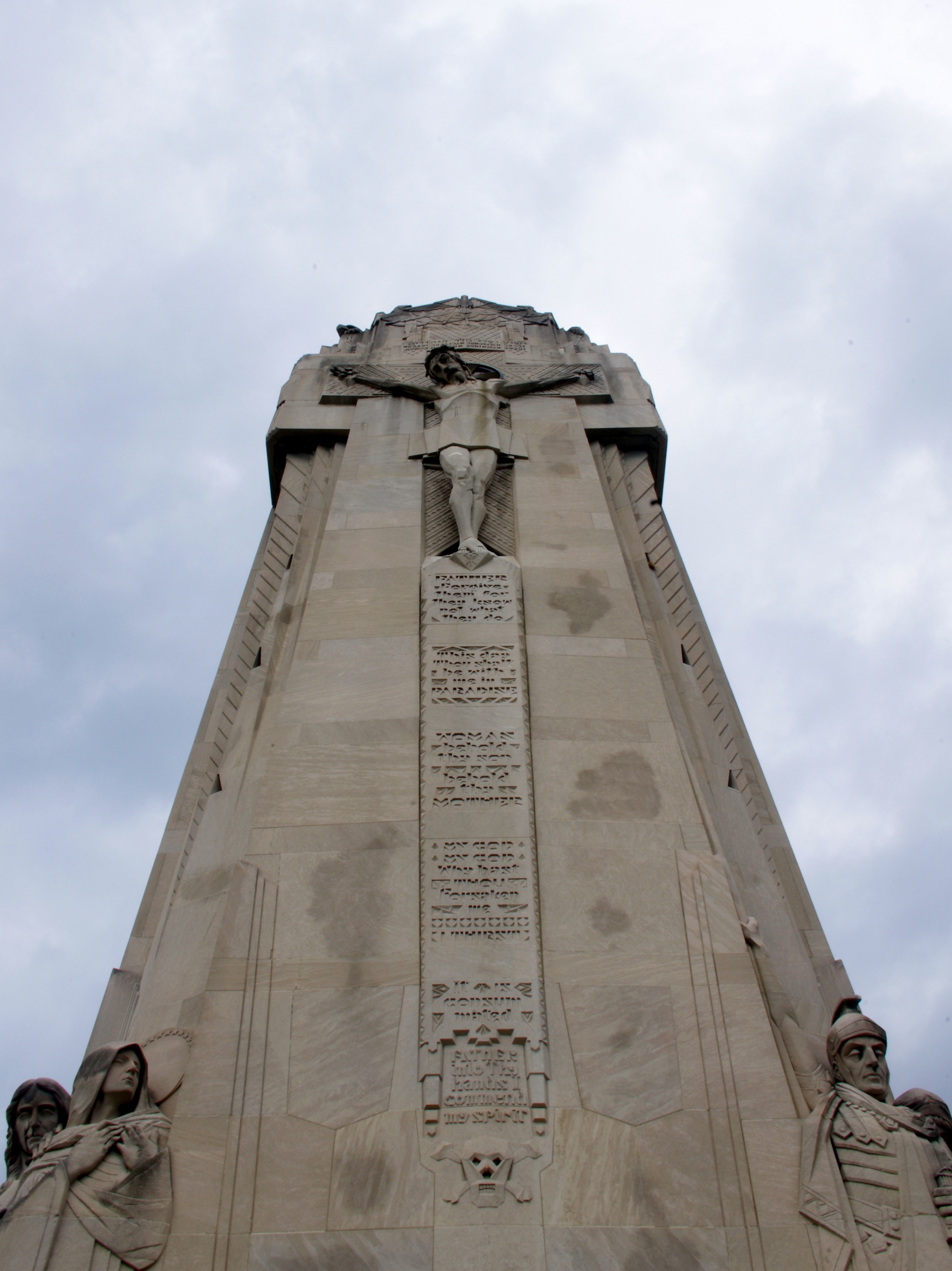 National Shrine of the Little Flower (Royal Oak, MI) - Charity tower with Christ's last words from the Cross